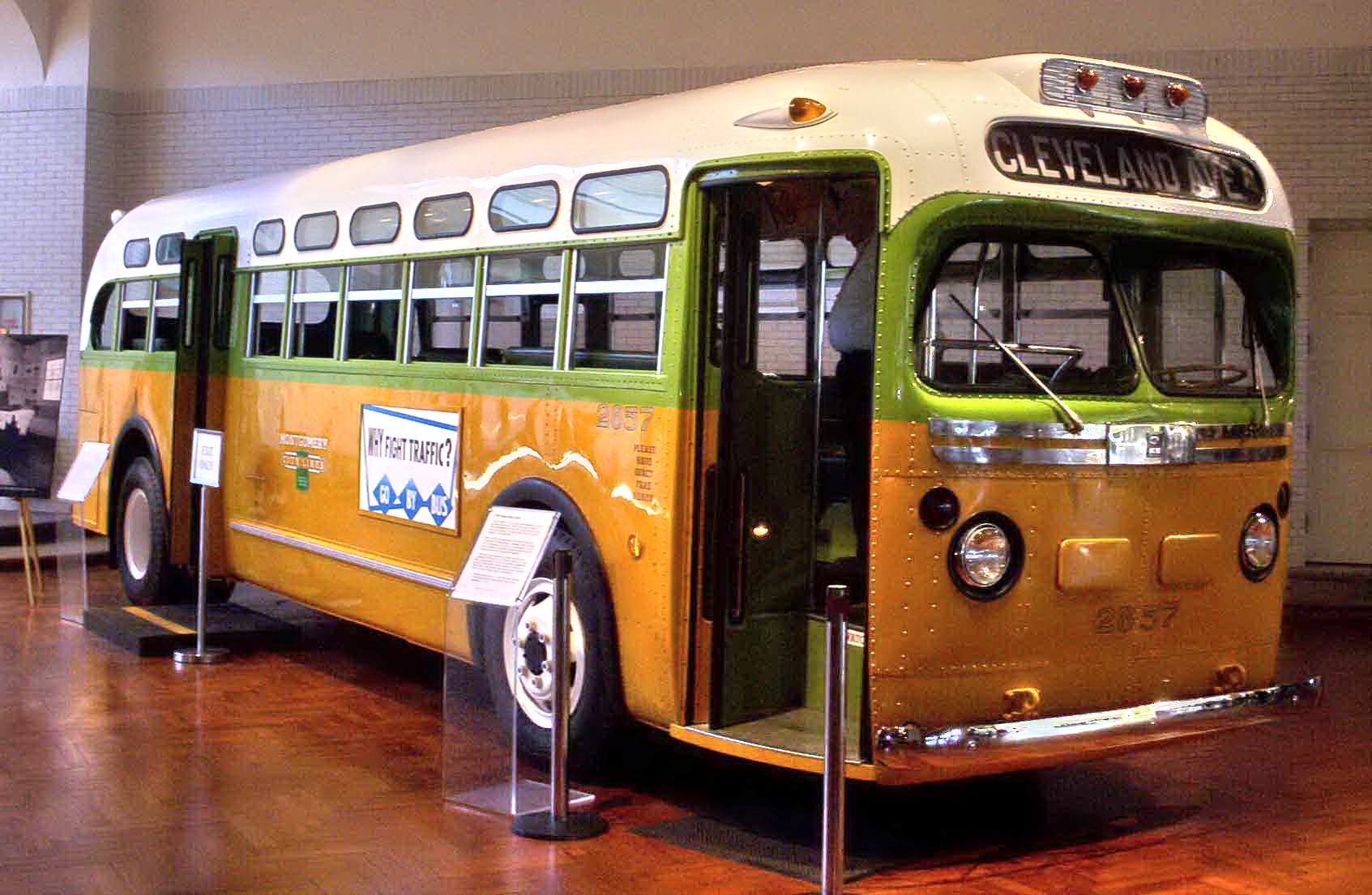 The bus on which Rosa Parks refused to give up her seat sparking the Montgomery Bus Boycott, a U.S. civil rights landmark.